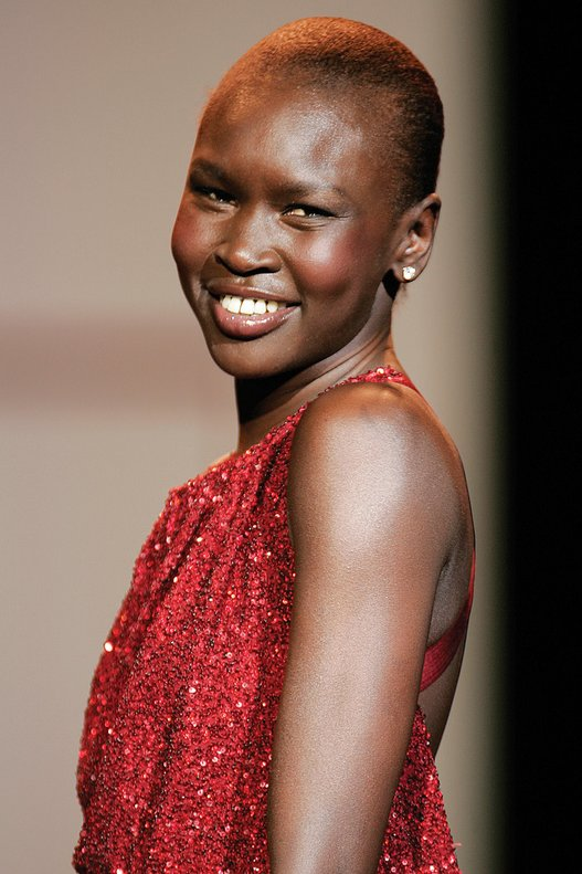 Alek Wek modelling in the 2007 Red Dress Collection for the Heart Truth campaign